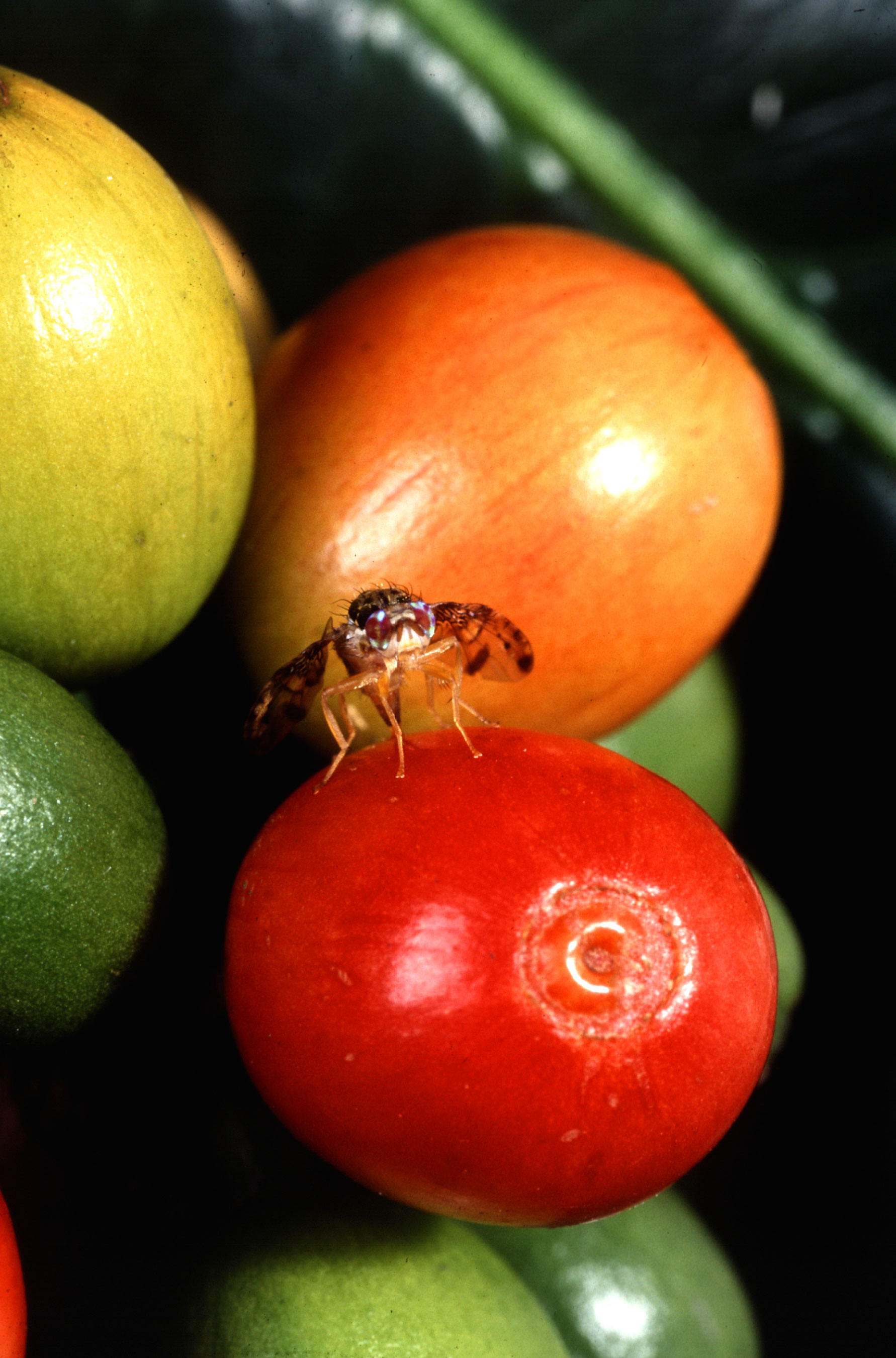 Ceratitis capitata Female medfly from Thumbnail Image Number K7022-6 A female medfly pumps eggs through her ovipositor into the soft outer layers of a ripe coffee berry. Photo by Scott Bauer.